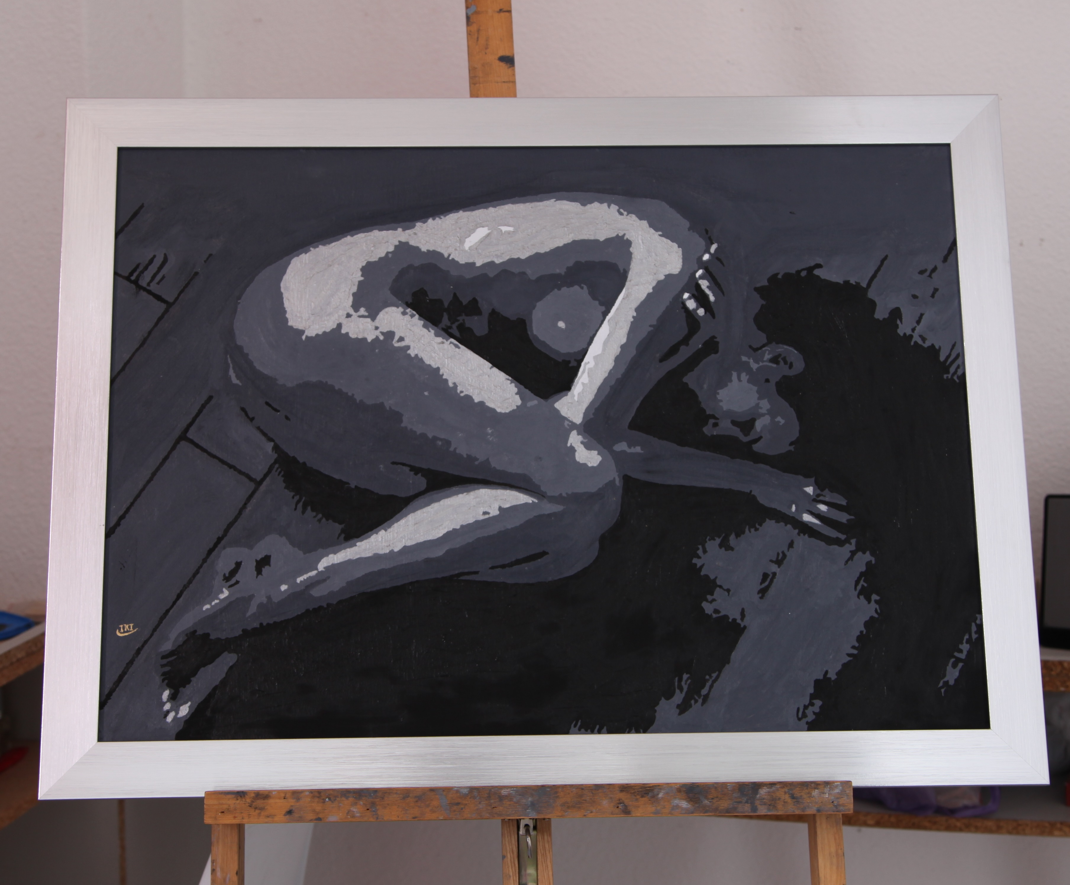 technique mixte, vendu à une banque Mozambicaine